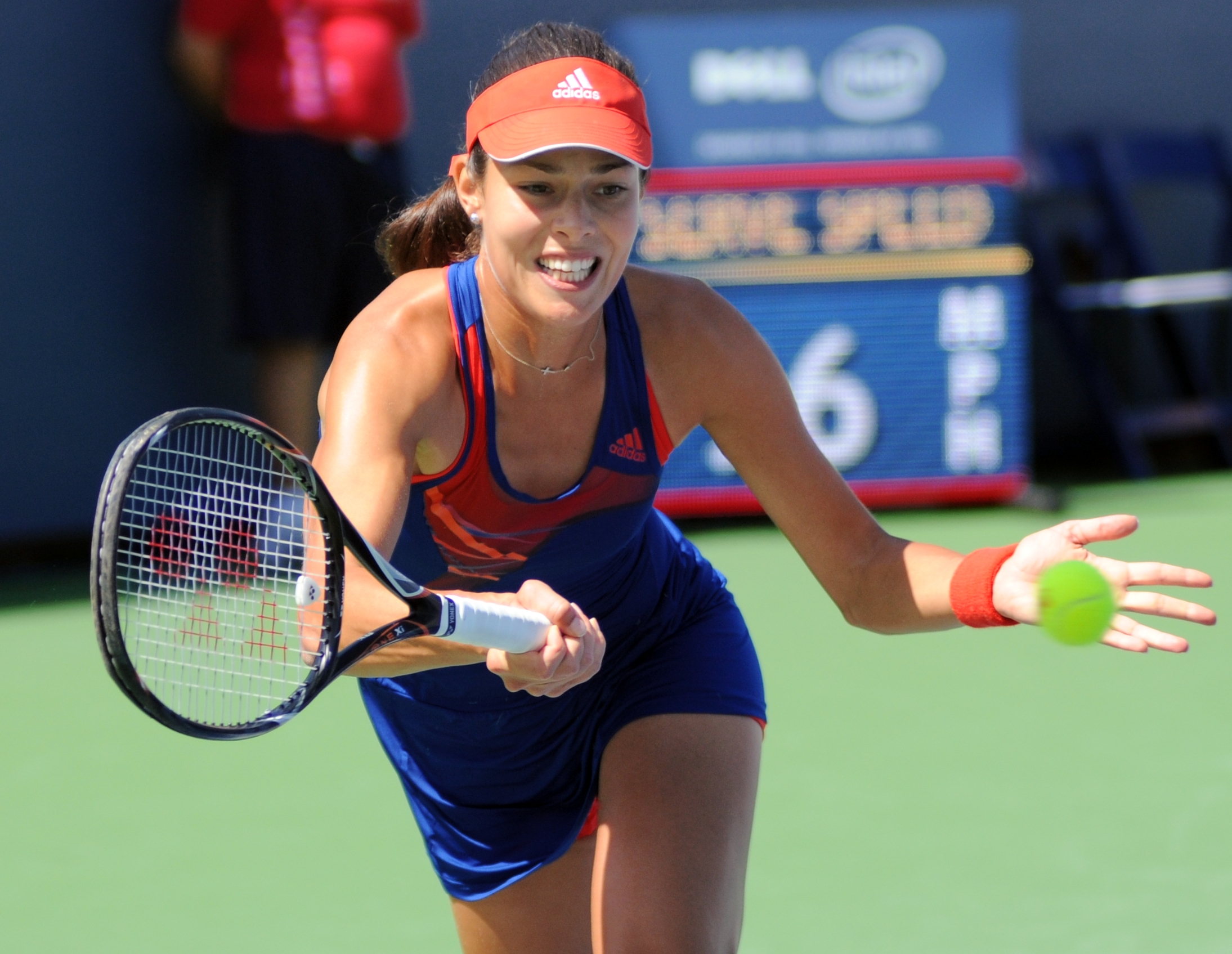 2013 Southern California Open - Quarterfinals